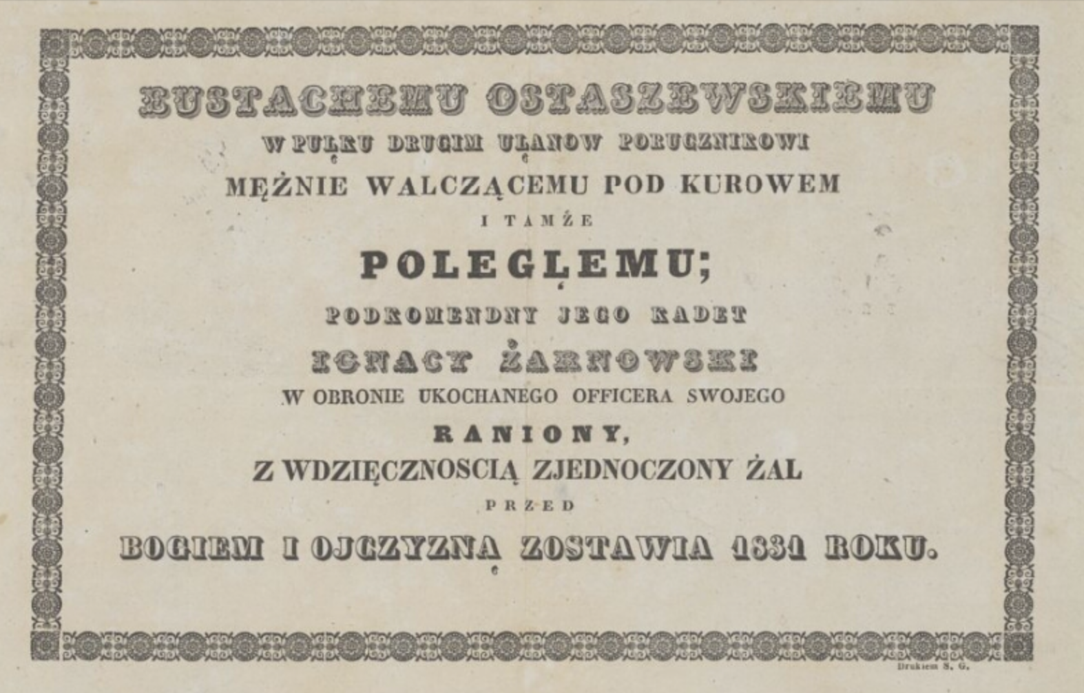 Eustachy Ostaszewski obituary from 1831